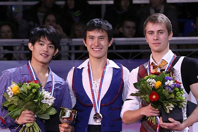 The Mens podium at the 2012 Rostelecom Cup. From left: Takahiko Kozuka (2nd), Patrick Chan (1st), Michal Brezina (3rd)